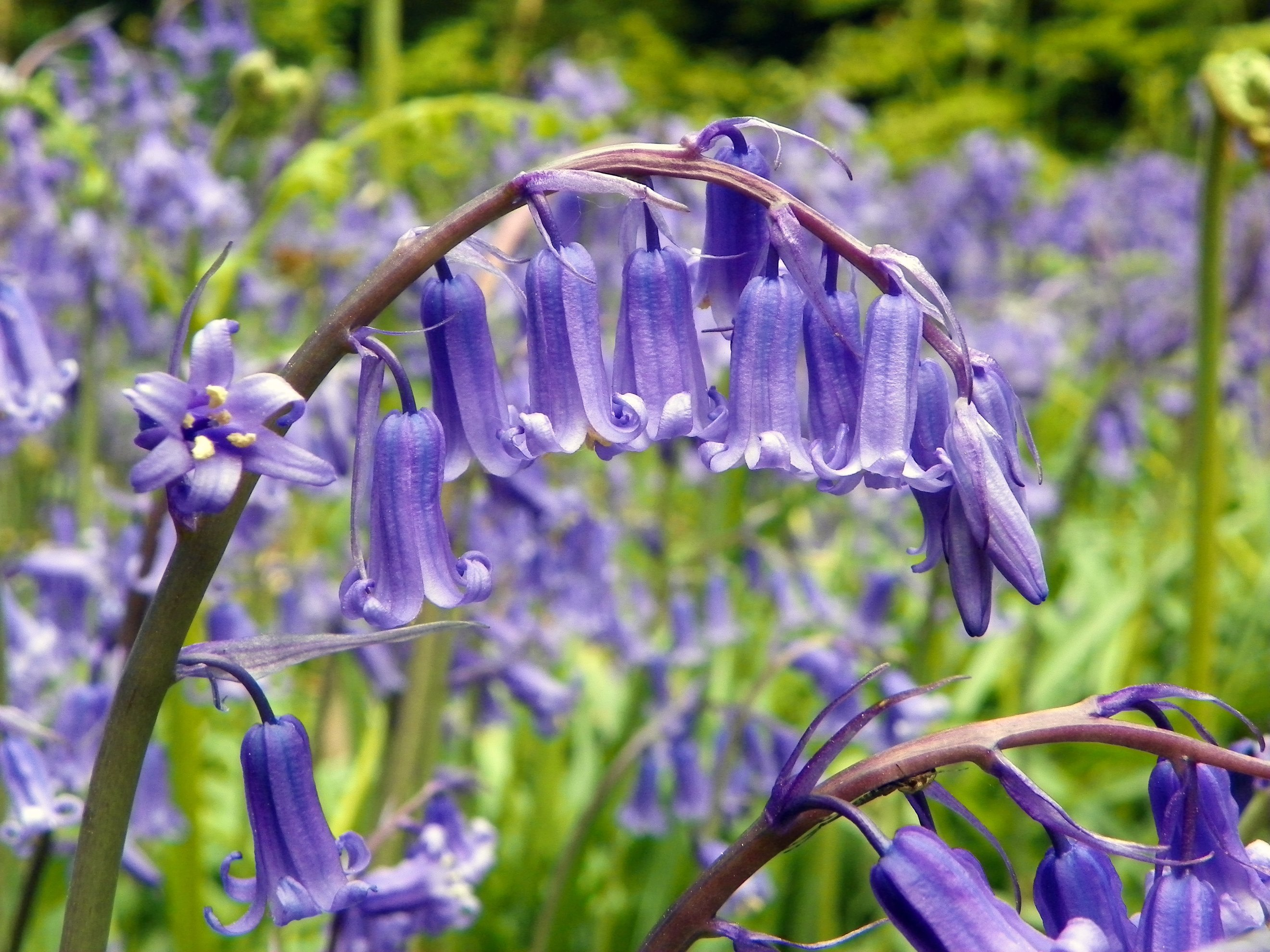 Bluebell (Hyacinthoides non-scripta), Box Wood, Stevenage, 28 April 2011.